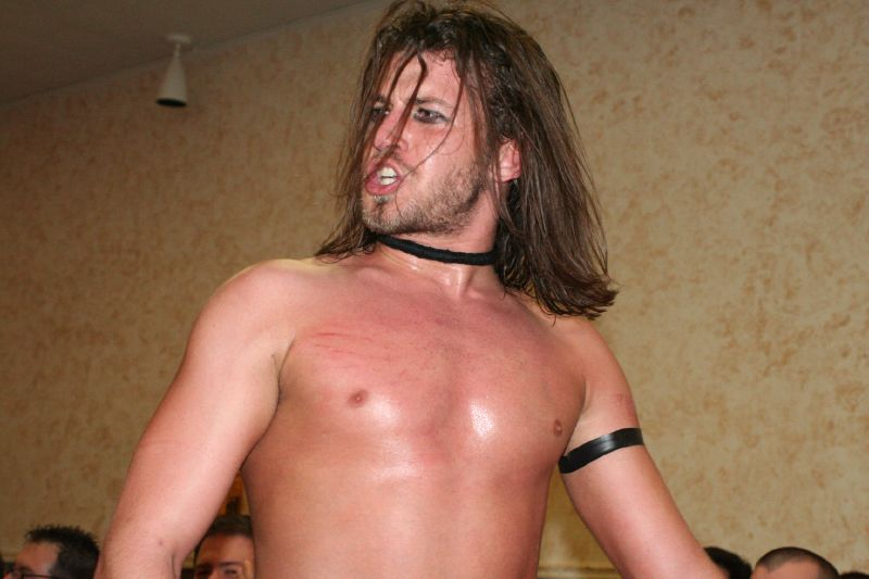 Professional wrestler Vin Gerard at a Chikara show in May 2008.